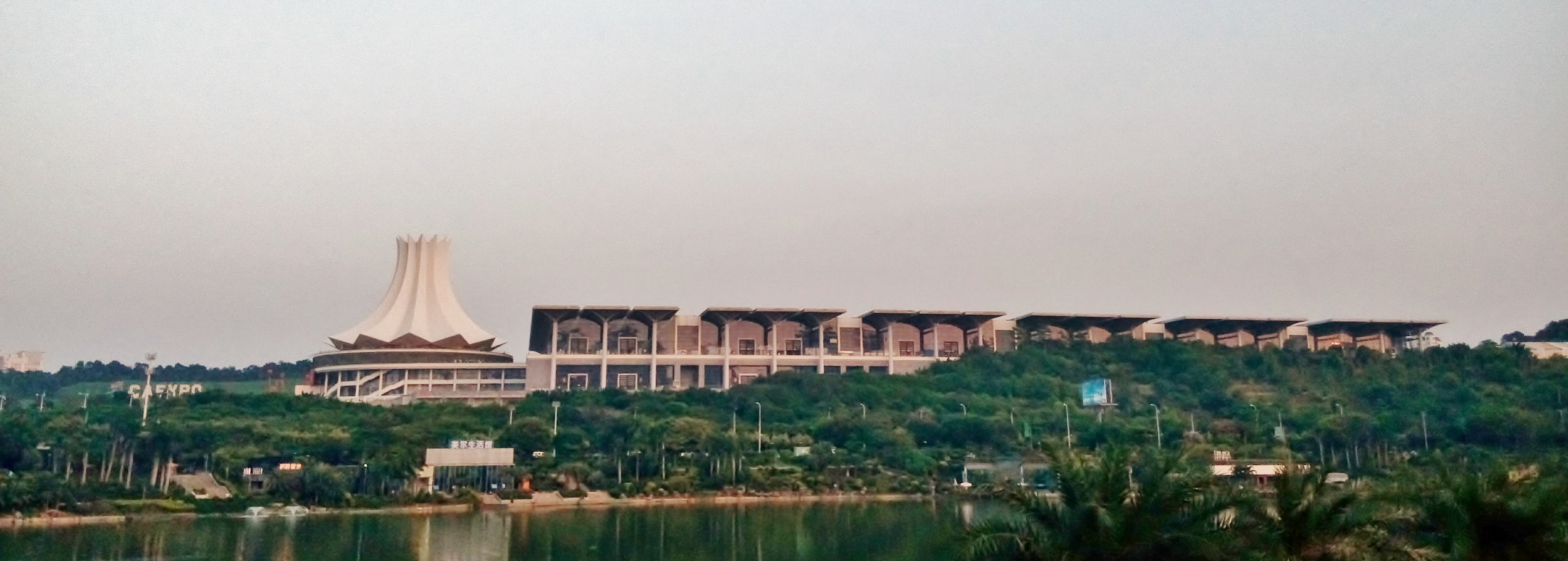 China-ASEAN Expo/CAEXPO Convention and Exhibition Centre in Nanning